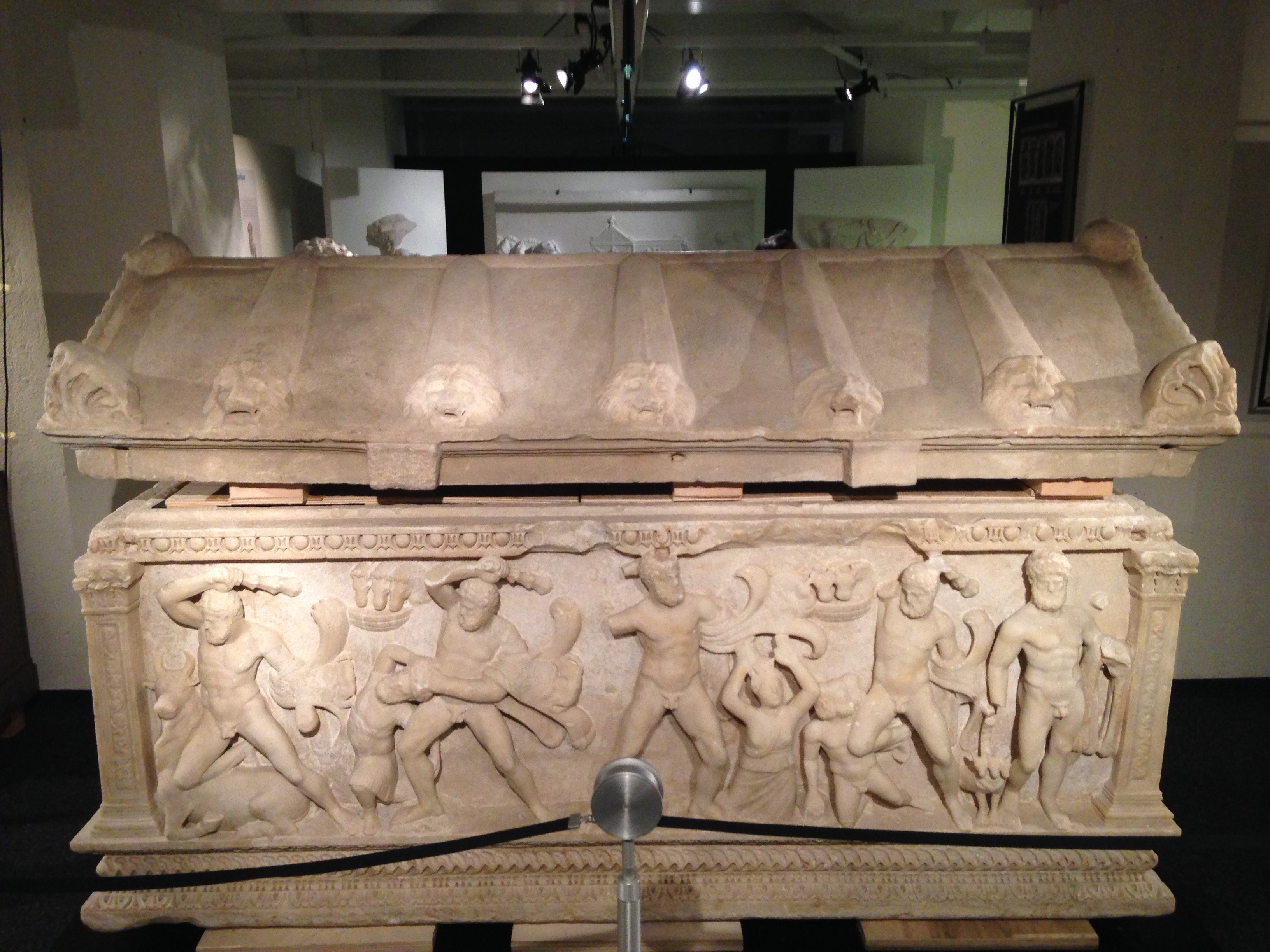 Roman sarcophagus of Perge (Turkey) found by Swiss customs and exposed before its return to the country of originFrom left to right: Capture the Cretan Bull. Steal the Mares of Diomedes. Obtain the girdle of Hippolyta, Queen of the Amazons. Obtain the cattle of the monster Geryon. Capture and bring back Cerberus.